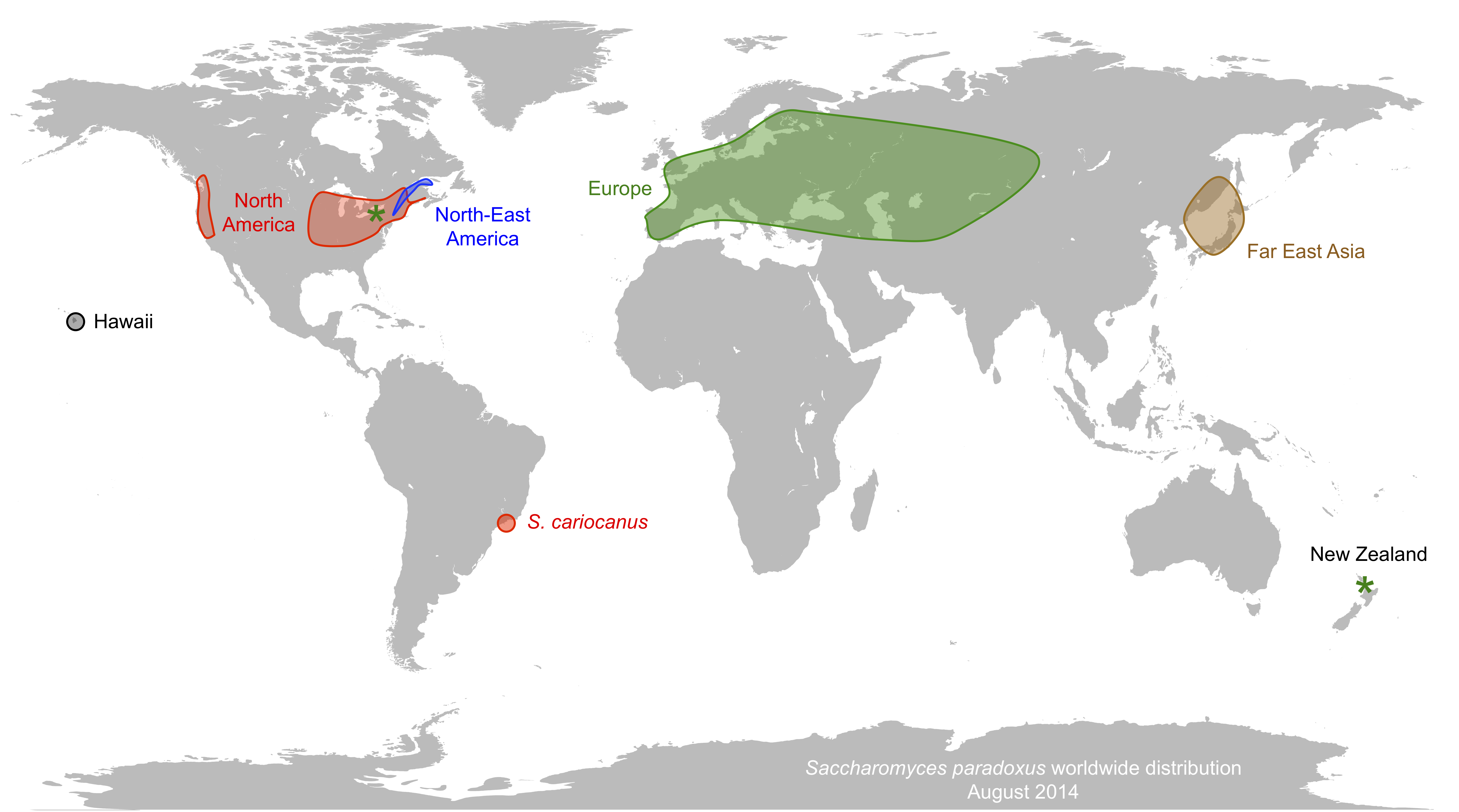 This is the known geographical distribution of the budding yeast Saccharomyces paradoxus in August 2014